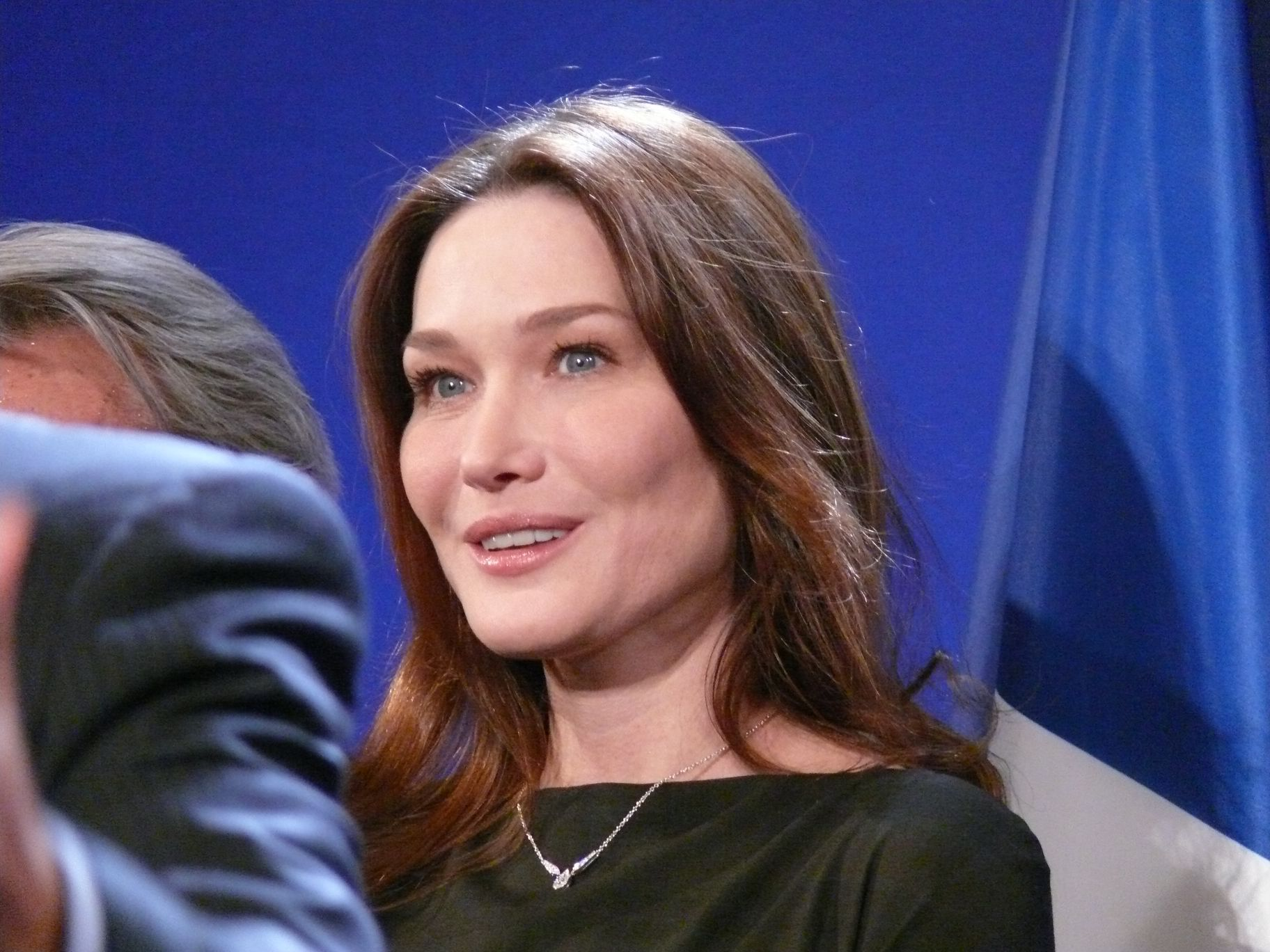 Meeting by President Nicolas Sarkozy on April 30th 2010 at Hyatt on the Bund Hotel in Shanghai (China)